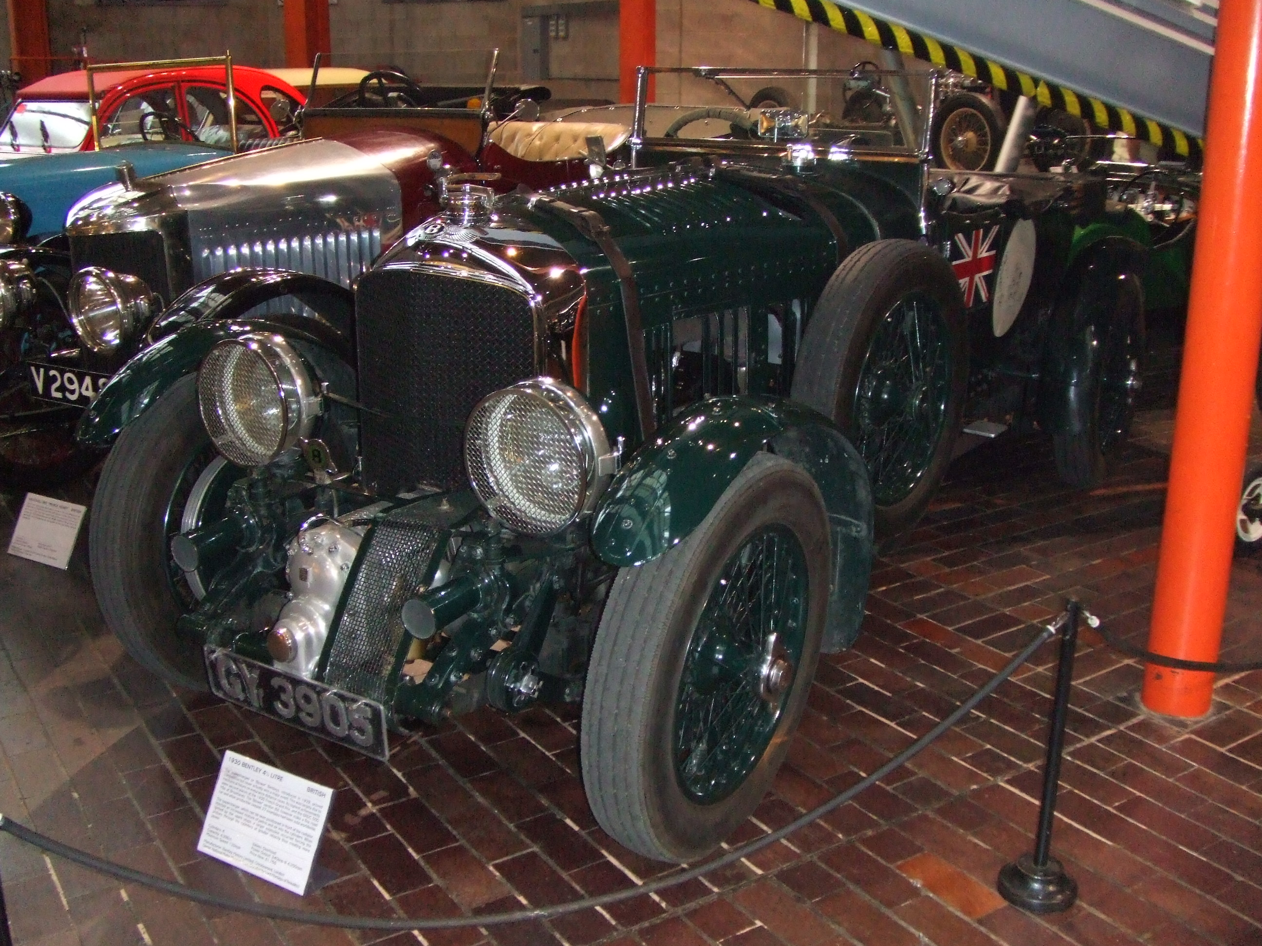 1931 "Blower" Bentley 4½ litre at the Beaulieu Motor Museum, 10/06. Bentley 4½-litre Supercharged 1931 initial body drophead coupé by Vanden Plas delivered August 1931 Chassis MS3946 10' 10" wheelbase Engine MS3948 with supercharger #119 Reg GY 3905